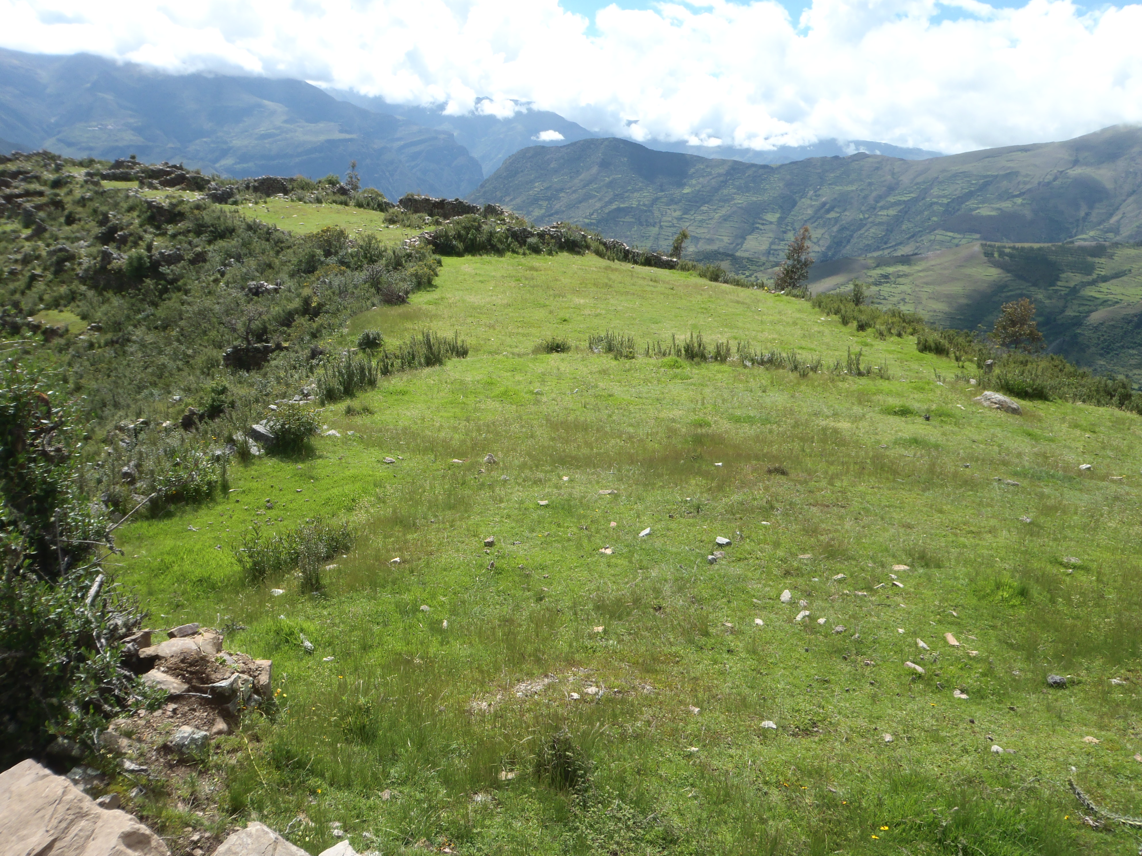 Yanaca is a pre-inca ruins group situated in Peru, Apurimac region, Yanaca district. Tunay Kassa is one of these ancient village, situated at 4 km from Yanaca village. This picture represents a view of Tunay Kassa from the top, we can see the main places of the village.